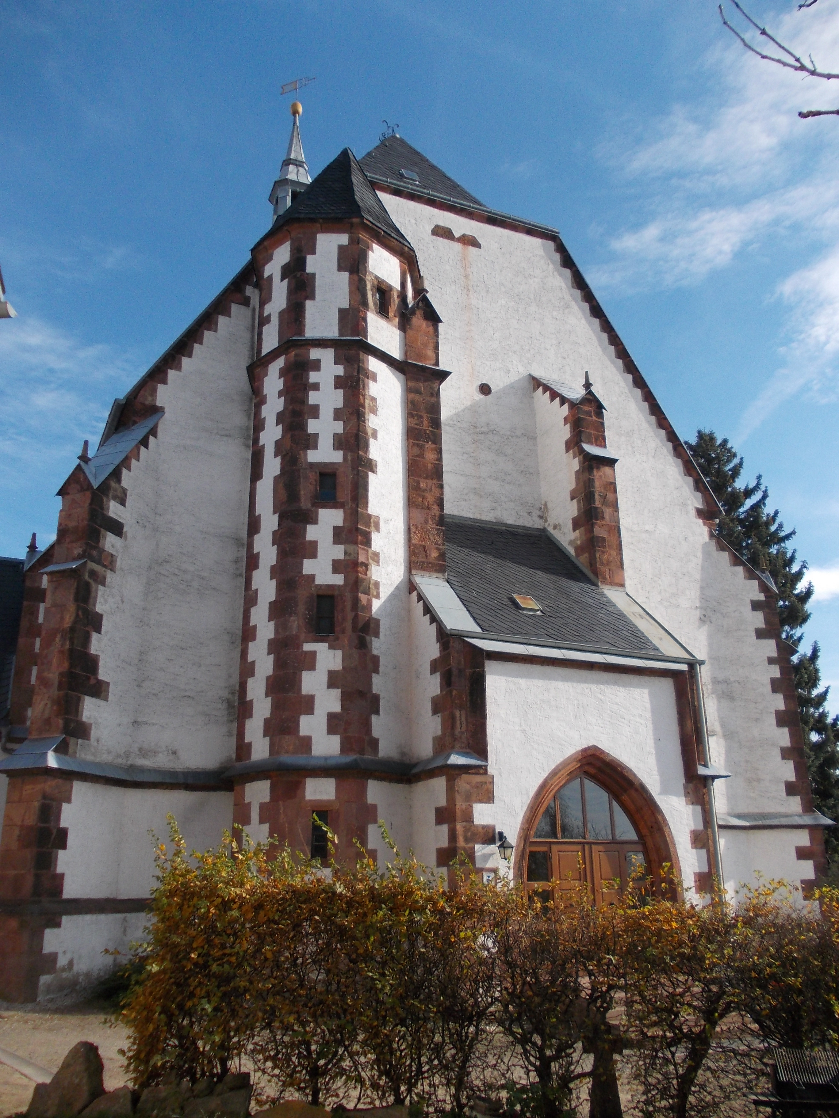 St. Mary's Church of Wickershain (Geithain, Leipzig district, Saxony)